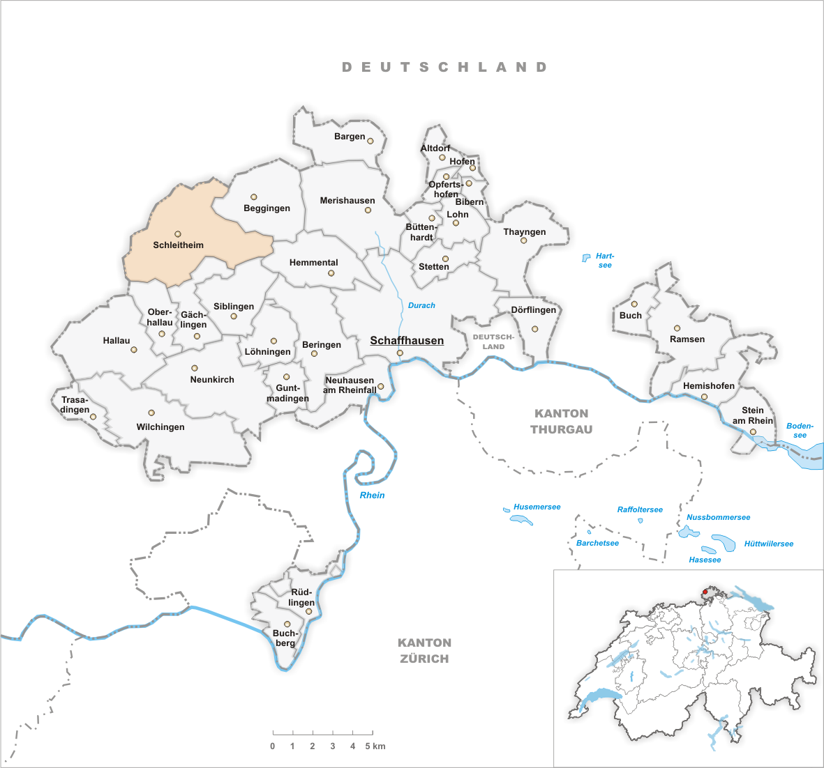 Municipality Schleitheim